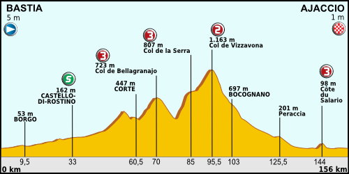 Tour de France 2013 - Profile Stage No. 2